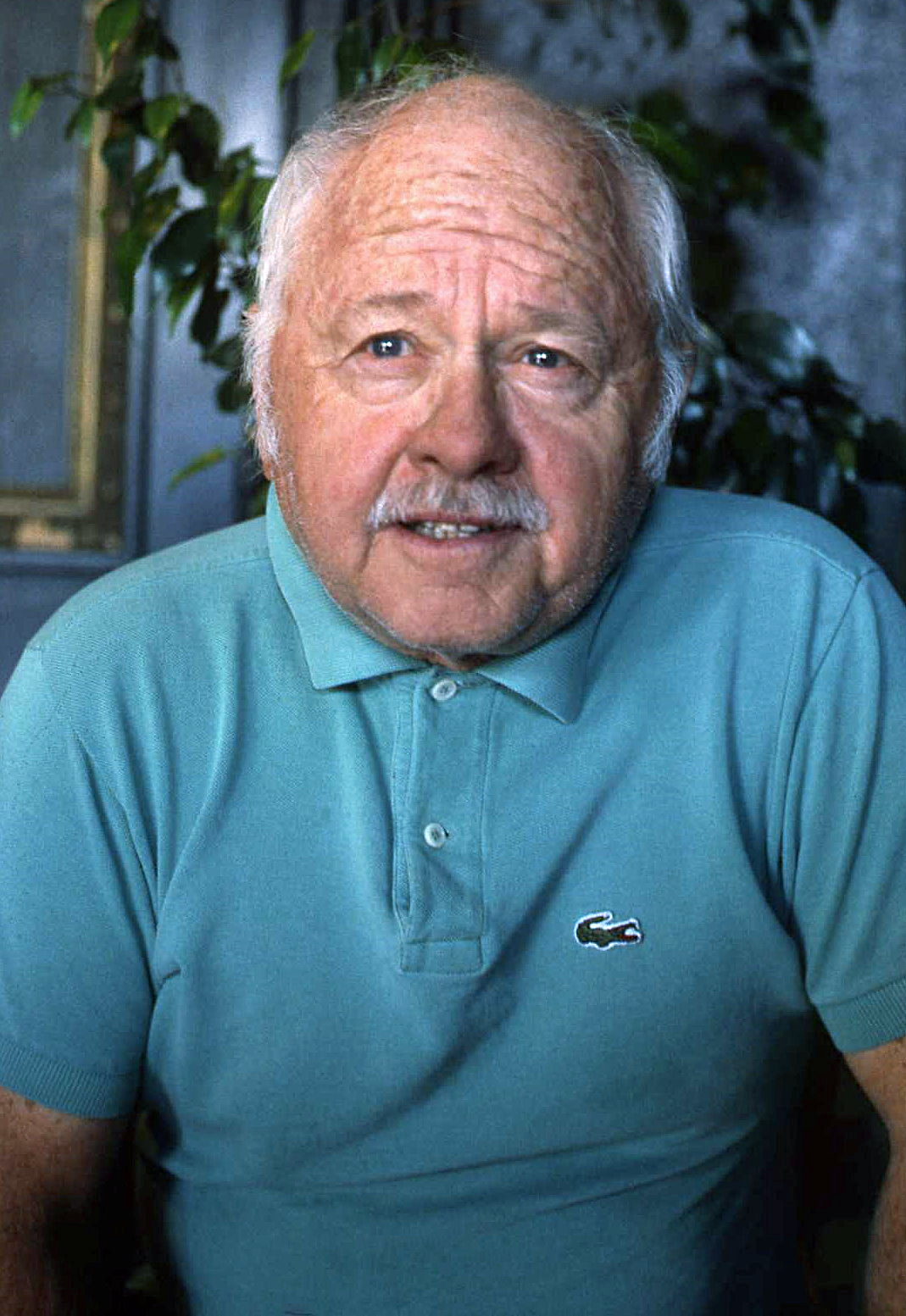 portrait of Mickey Rooney